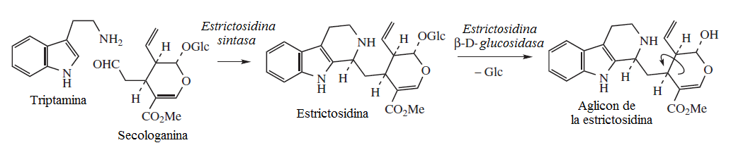 Strictosidine biosynthesis